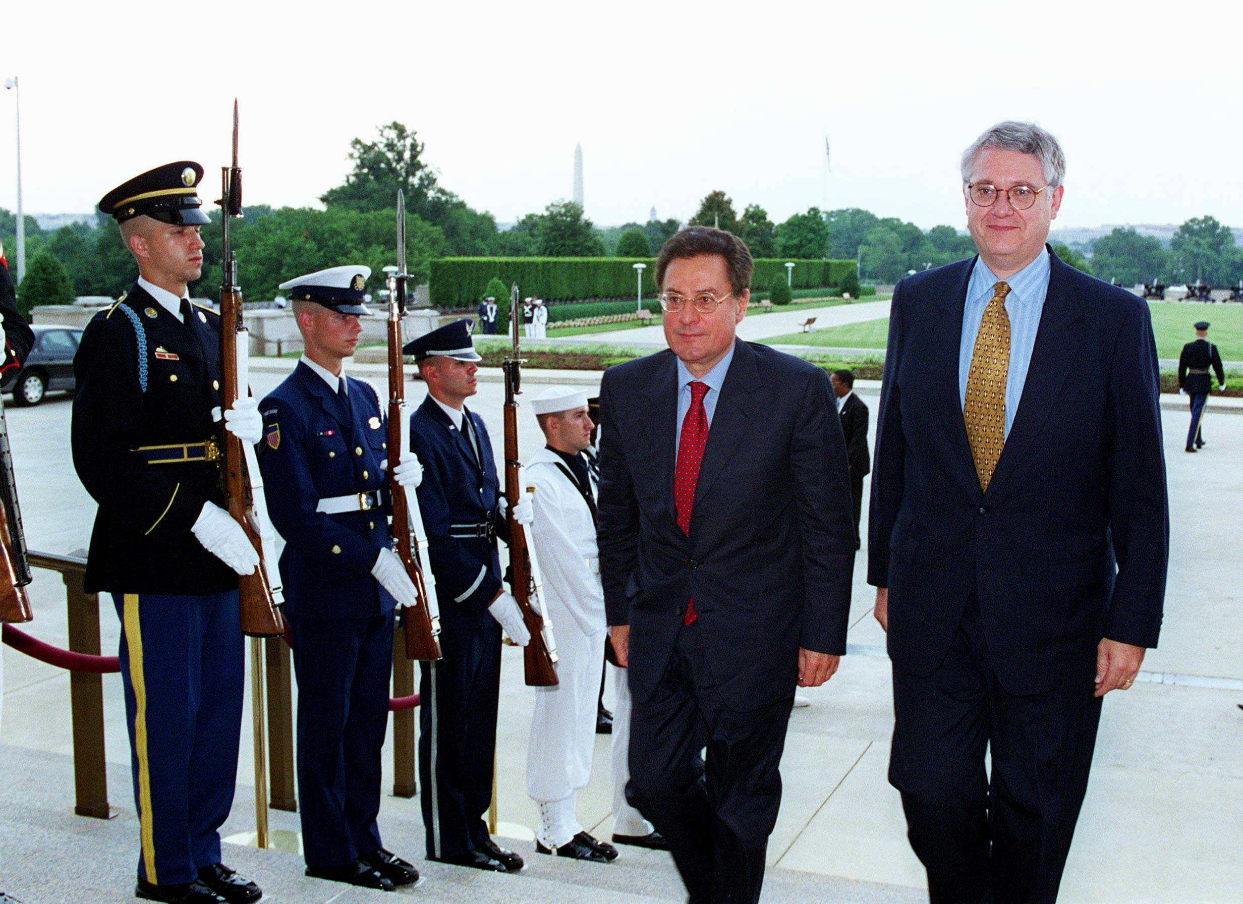 Deputy Secretary of Defense John J. Hamre (right) escorts Italian Deputy Minister of Defense Massimo Brutti (left) into the Pentagon on June 30, 1998.